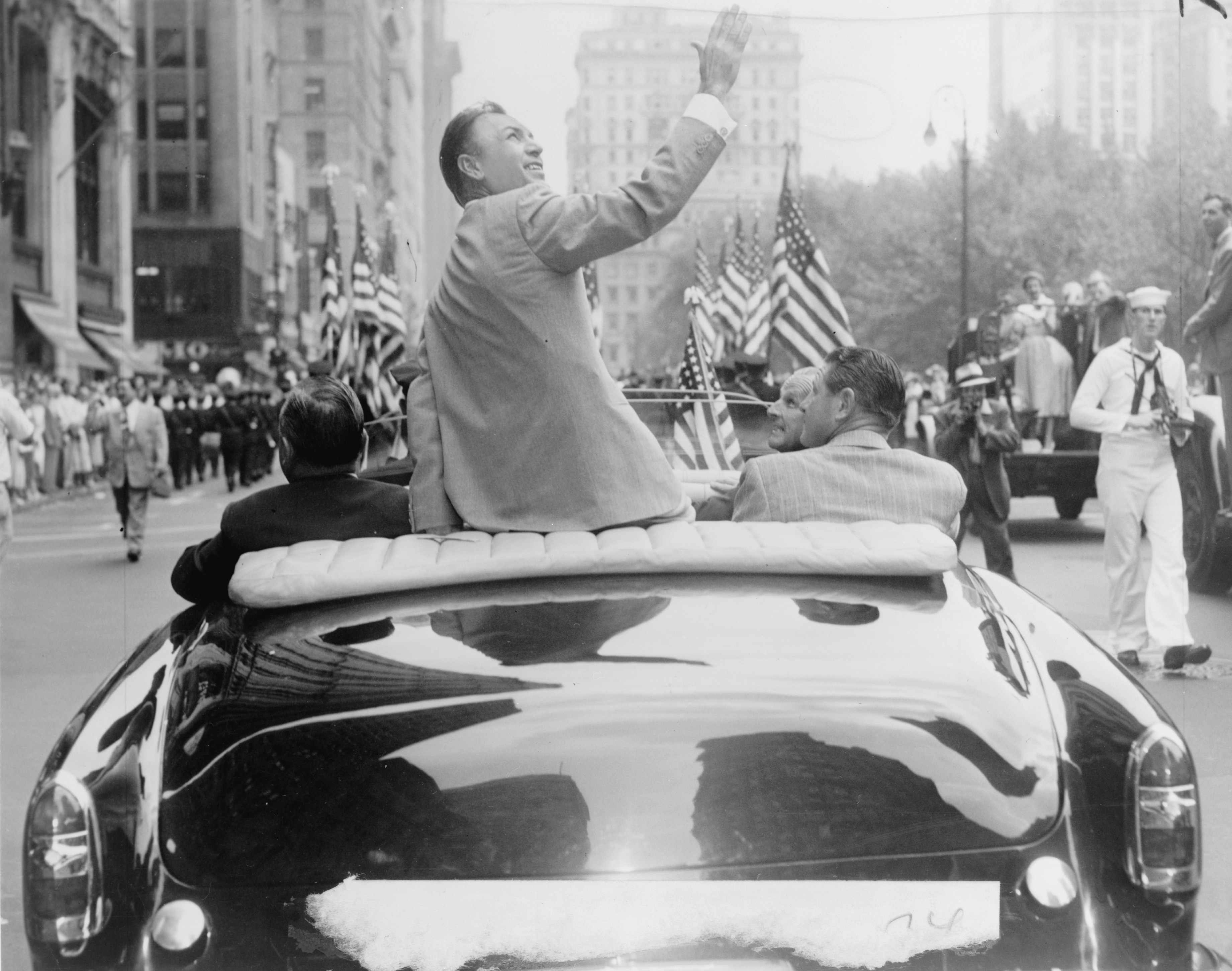 Ben Hogan seated on back of car in homecoming parade on Broadway / photo by Dick DeMarsico.